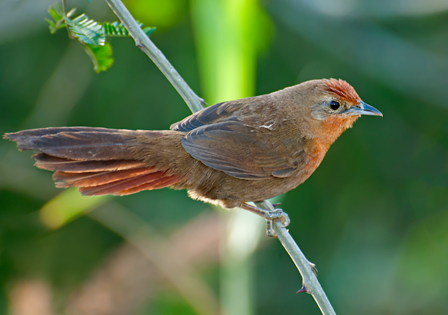 A Orange-breasted Thornbird in Mairipora, São Paulo, Brazil.